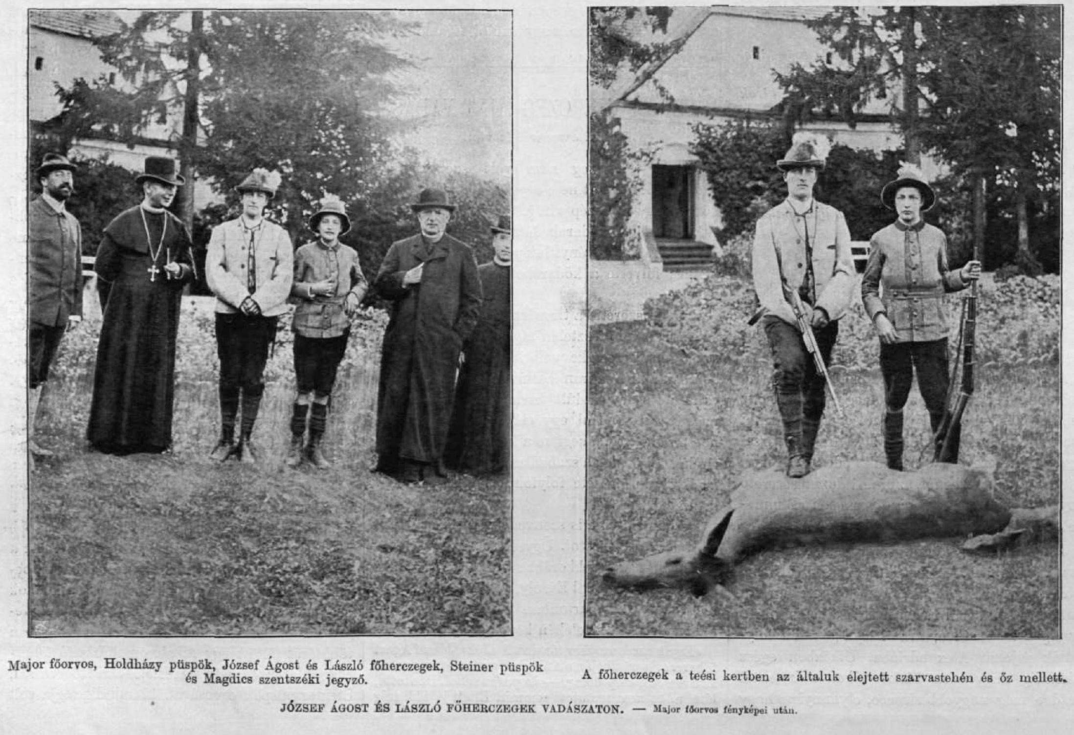 Archduke László of Austria (1875-1895), Archduke Joseph August of Austria (1872–1962), János Holdházy, Fülöp Steiner